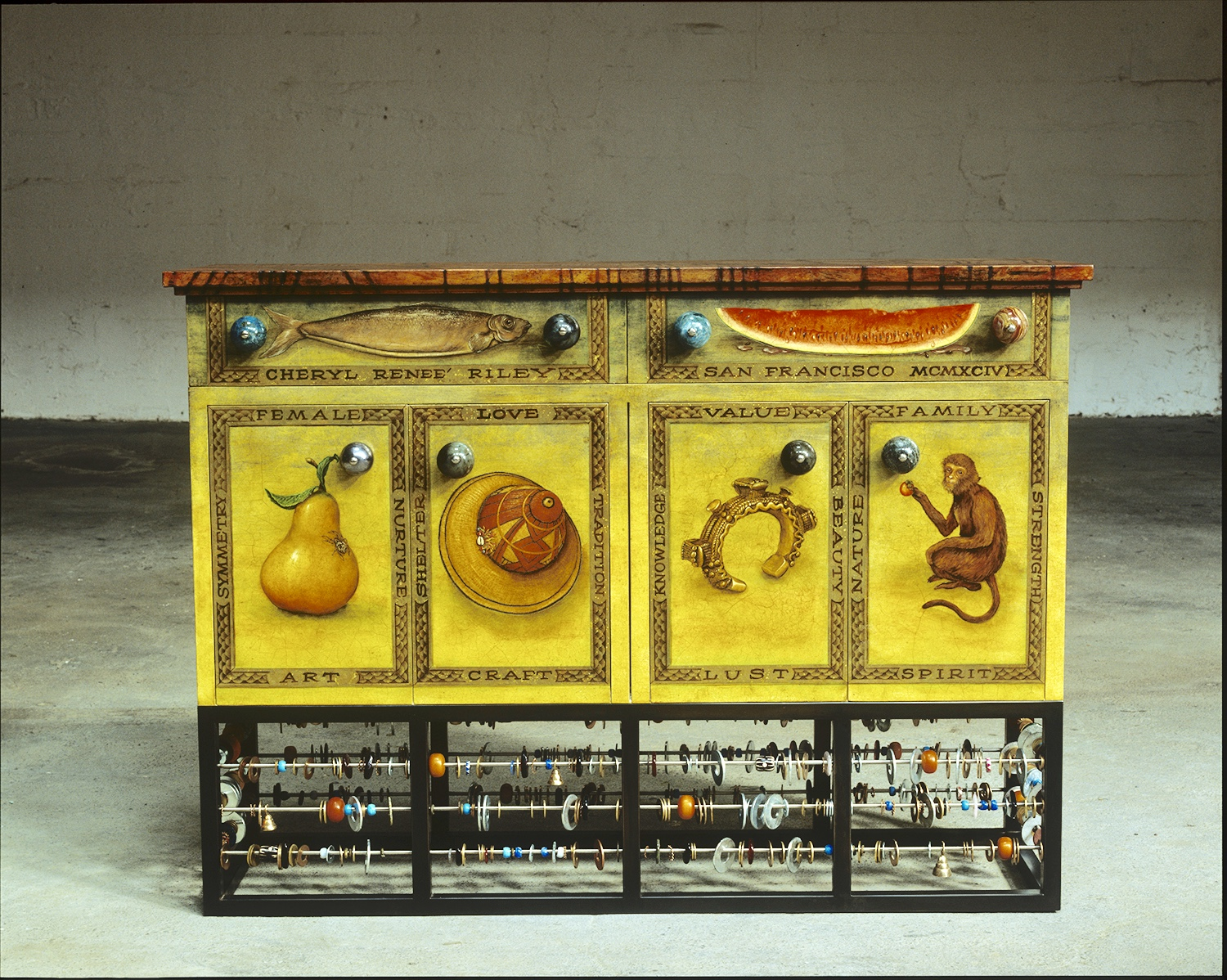 De'Medici Sideboard II, now part of the permanent collection at the Oakland Museum.